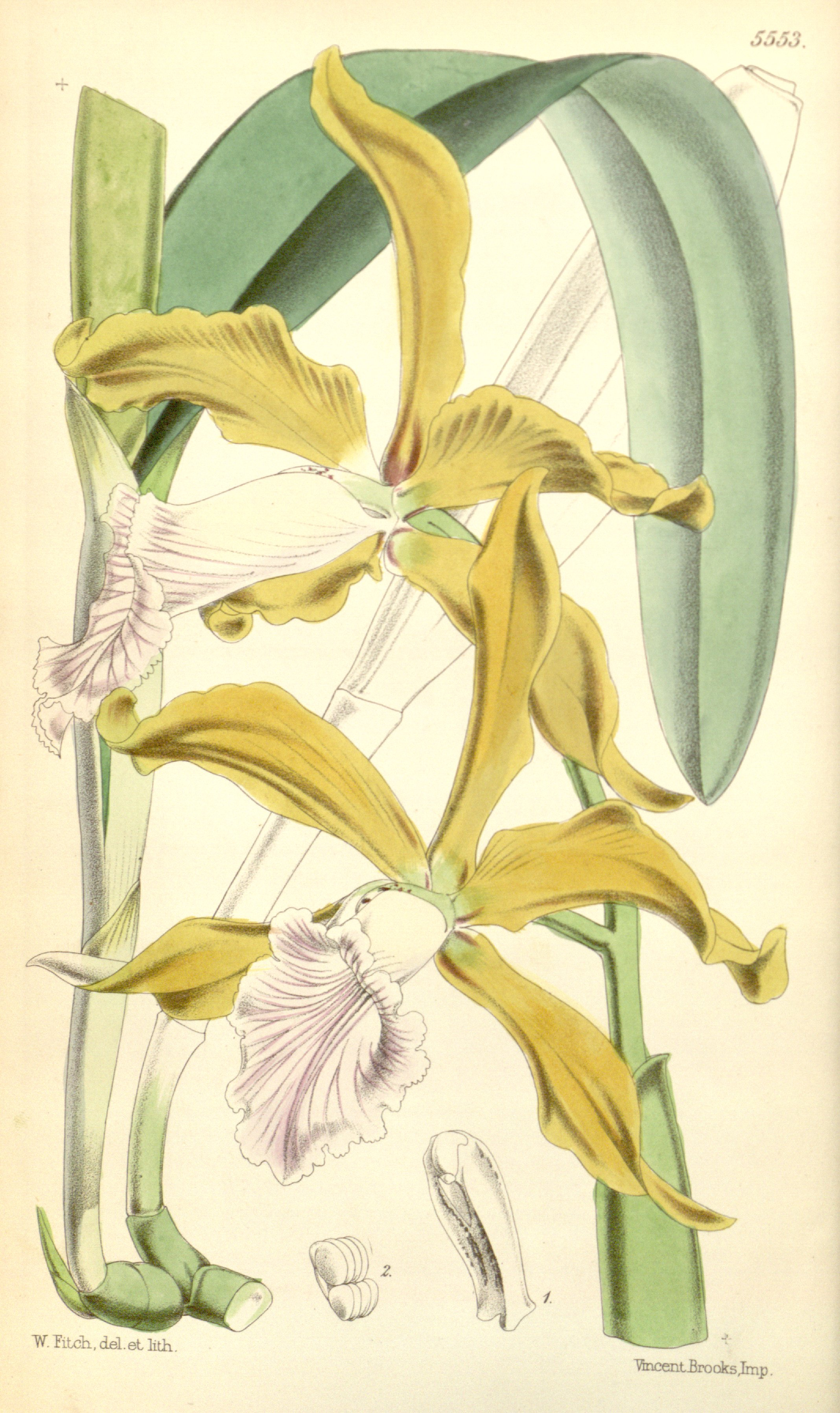 Illustration of Sophronitis grandis (as syn. Laelia grandis)